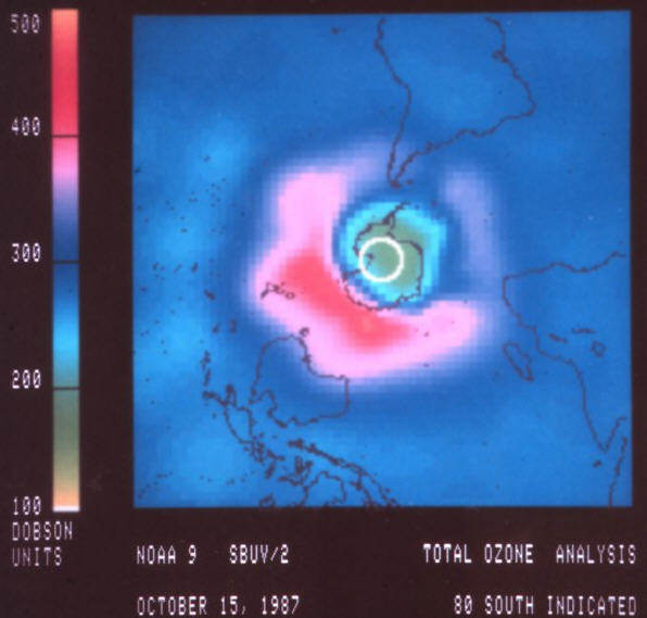 Ozone analysis map - 15. Oktober 1987 (Original text : Ozone analysis map showing "ozone hole" over Antarctic continent. Data obtained from NOAA-9 operational environmental satellite. Data were acquired by the Solar Backscatter Ultraviolet (SBUV/2) instrument.) Image ID: spac0110, NOAA in Space Collection Photo Date: 1987 October 15